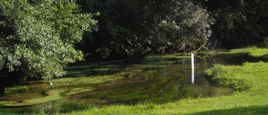 The orbiquet near its source